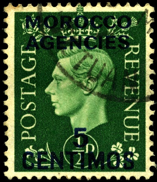 United Kingdom offices in Morocco 5-centimo stamp of 1937